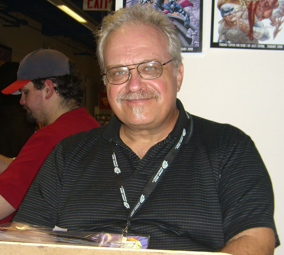 Comic book creator Alex Saviuk at the November 2008 Big Apple Convention in Manhattan.